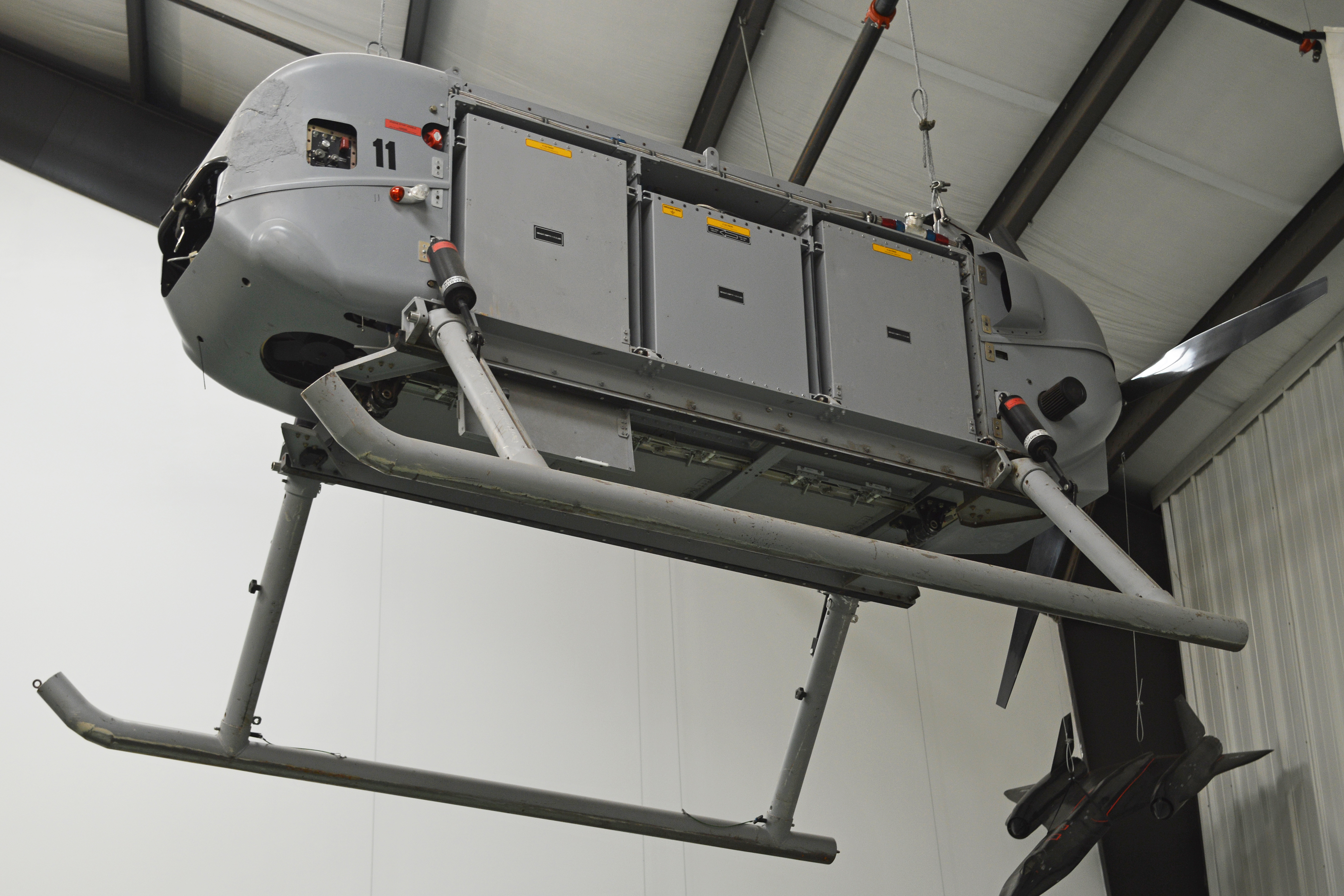 The Snow Goose is a multi-purpose UAV used for the precision cargo delivery. It was originally designed for leaflet dispensing, but can support a variety of missions with its six modular cargo bays and can carry up to 575lbs of cargo including fuel, electronic sensors or broadcasting packages. Equipped with an autonomous guidance system and satellite communications for monitoring and controlling flights from a remote ground control station, the Snow Goose uses a collapsible parafoil for lift (not on display) and a turbocharged Rotax engine for propulsion. The main pod is on display in Hangar 2 at the March Field Air Museum, Riverside, CA, USA. 28-2-2016